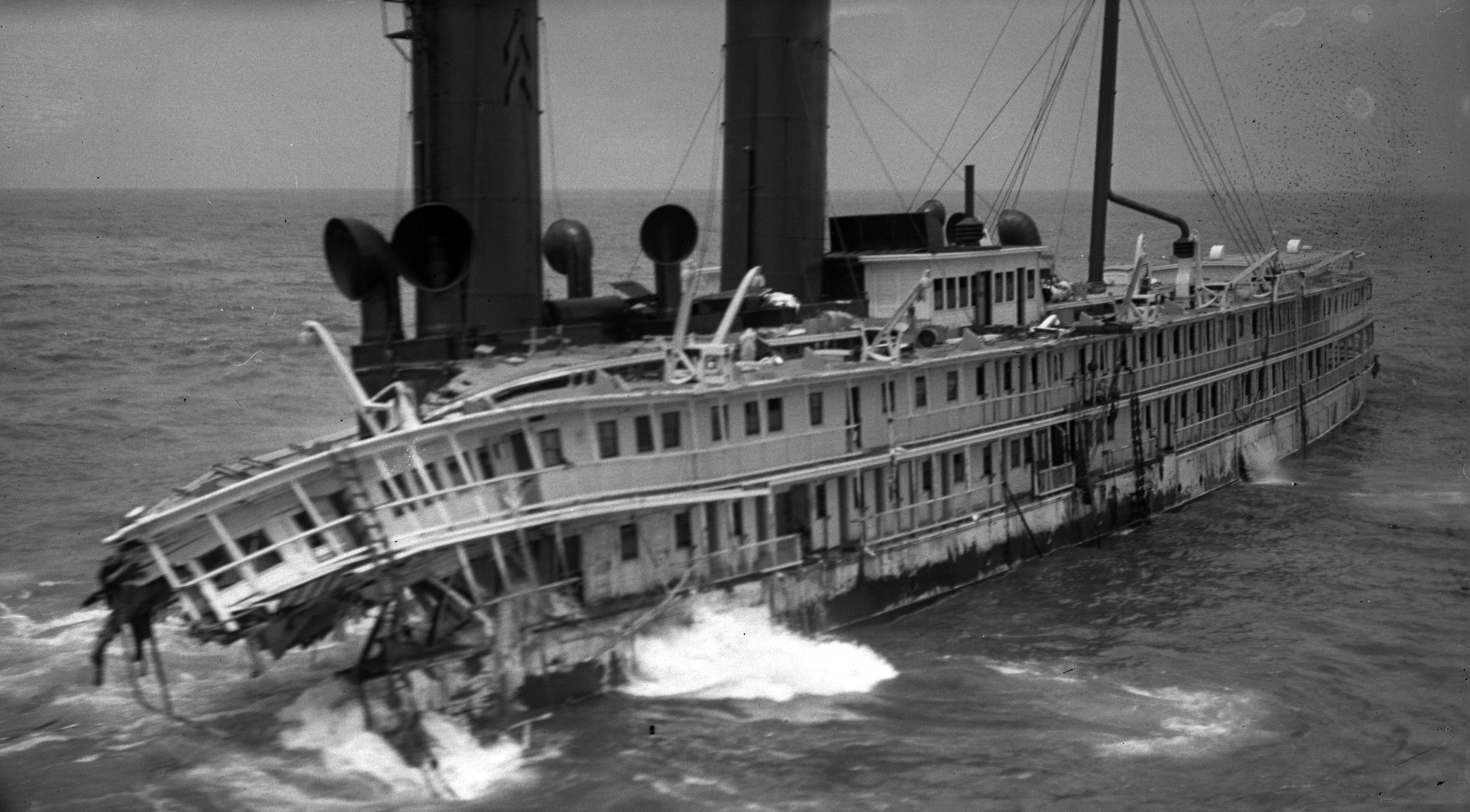 Title: Angled side view of sinking steamship S. S. Harvard on Point Arguello, Calif., 1931 Published caption:Constant Battering Shatters S.S. Harvard Publication:Los Angeles Times Publication date:June 13, 1931 Subjects: Arguello, Point (Calif.) Harvard (Steamship) Los Angeles Steamship Company Passenger ships--California--Los Angeles Shipwrecks--Pacific Coast (U.S.) Source:Los Angeles Times photographic archive, UCLA Library Note about non-renewal of copyright: [1]